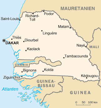 senegal map